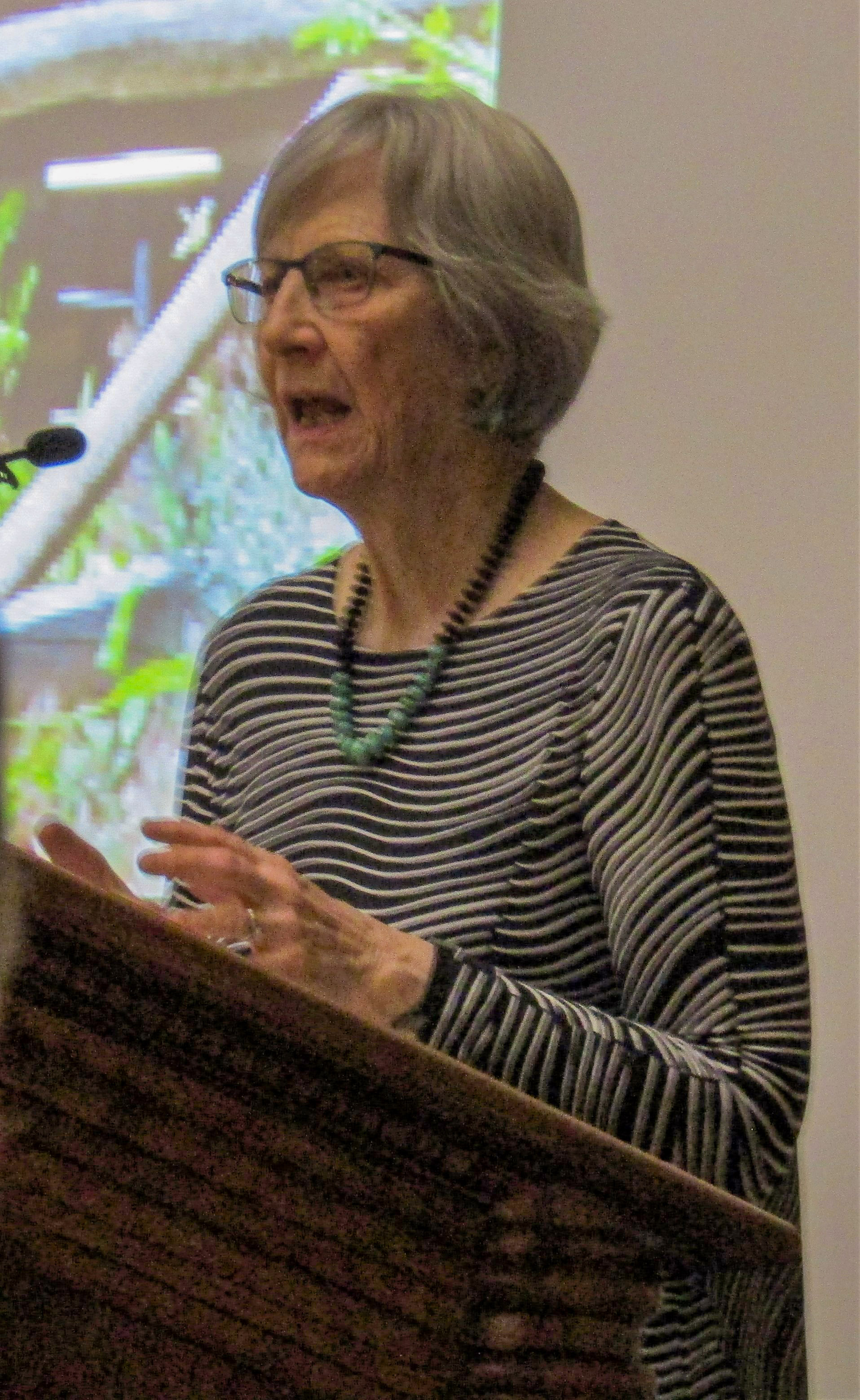 Laurel Thatcher Ulrich speaking at the BYU Hinckley Center.